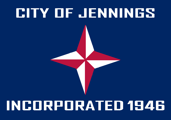 Flag of Jennings, Missouri